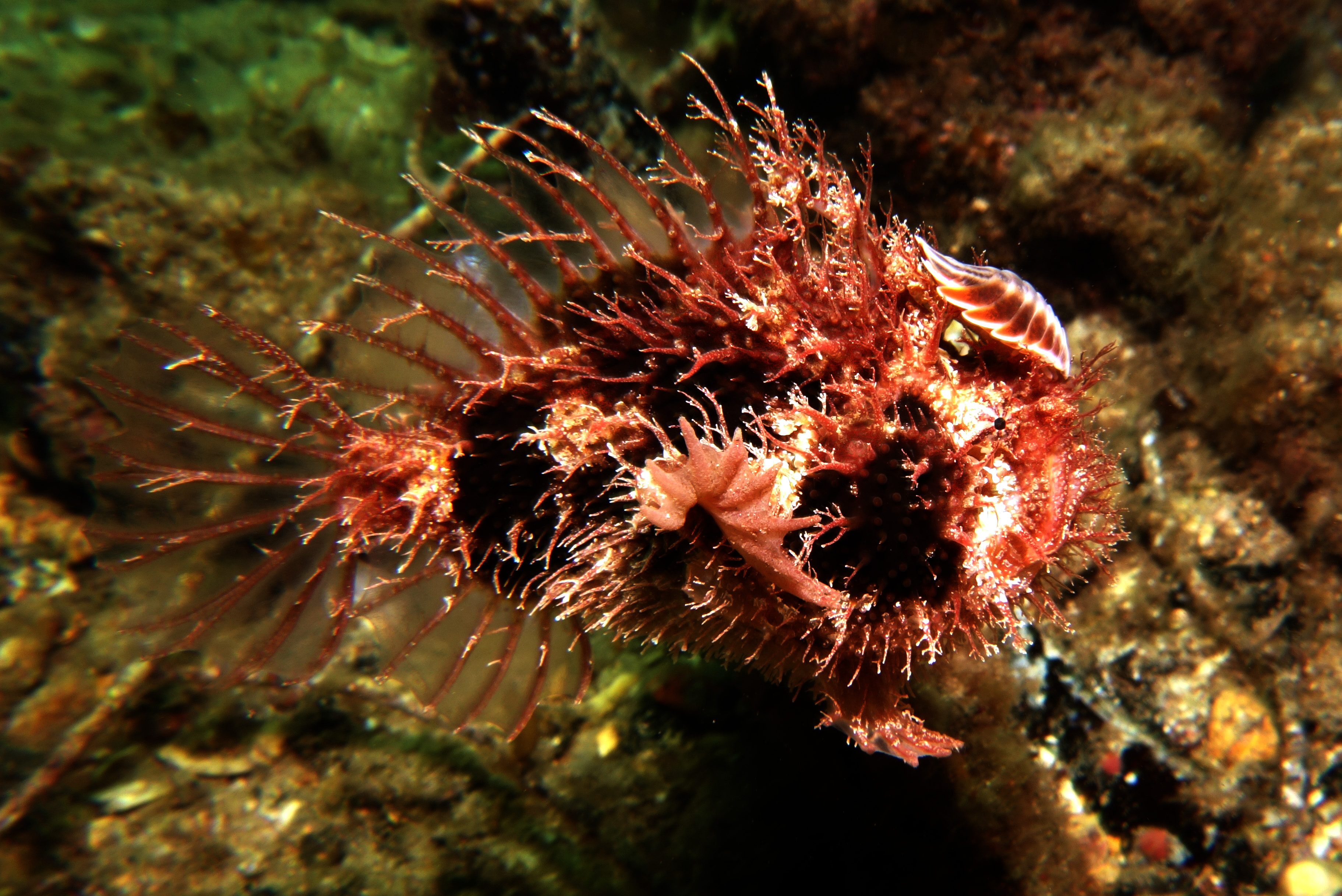 Tassled angler fish